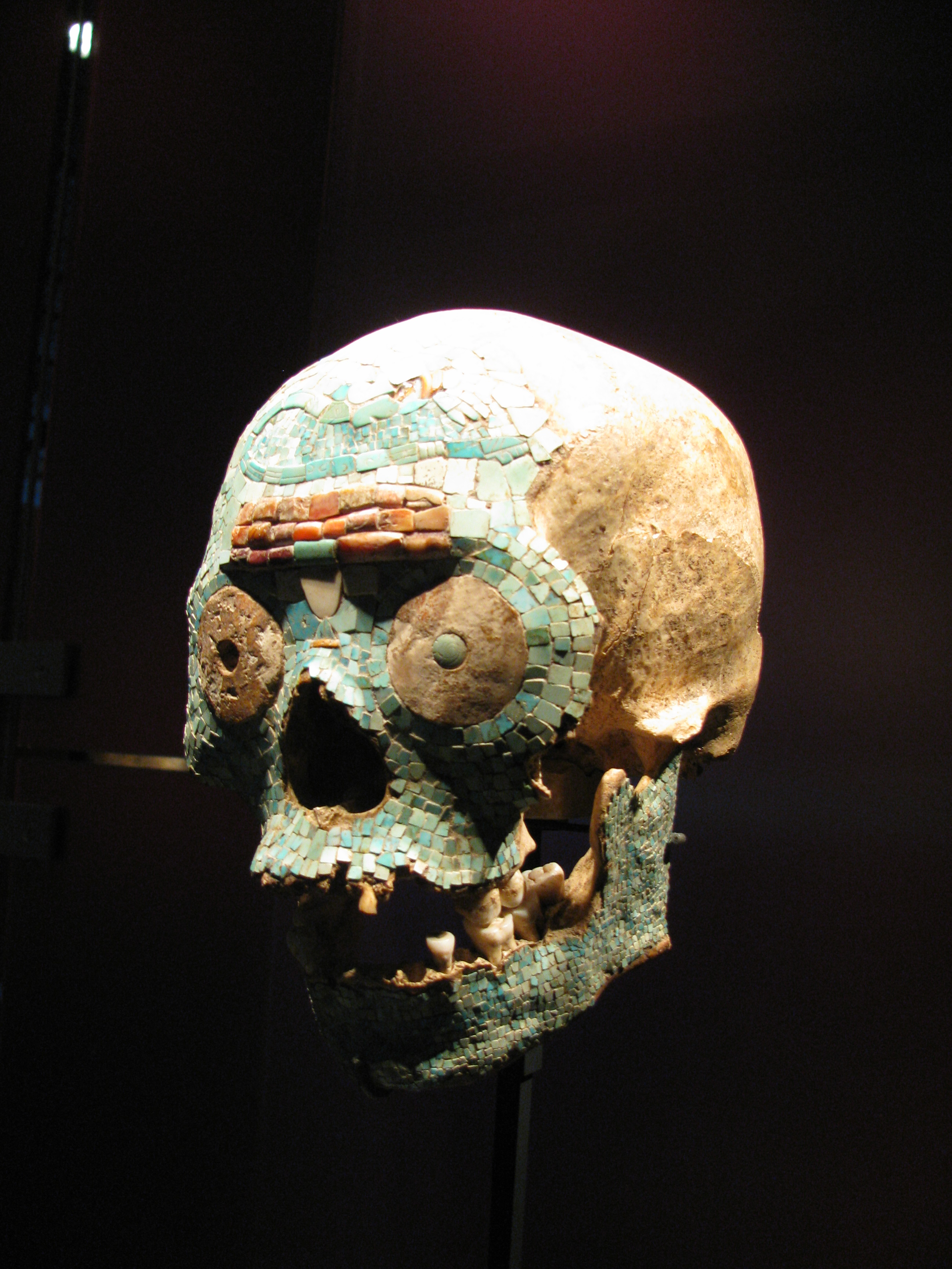 Skull with mosaic inlay of turkois, shells and mother-of-pearl. Mixtecs/Aztecs, Mexico. Ca. 15th century. State museum of Ethnology, Leiden, The Netherlands. On the forehead of the skull a snake has been depicted. Probably this person had a special connection to the Aztec god Quetzalcoatl, the feathered snake. Mixtec craftsmen were very skilled in the art of making mosaics. Only few objects of their work have been remained.